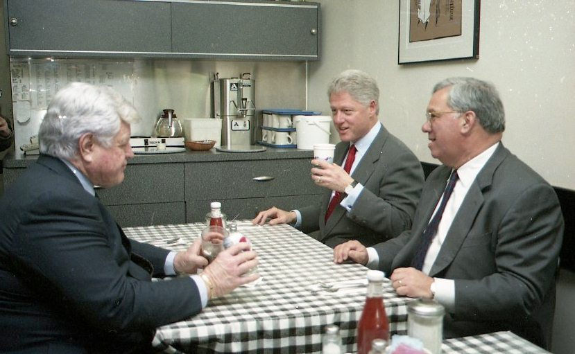 Title: Mayor Thomas M. Menino, Senator Edward M. Kennedy, and President William Clinton at Mike's City Diner Creator: Mayor's Office - City Photographer Date: 2001 January 18 Source: Mayor Thomas M. Menino records, Collection #0247.001 Rights: Copyright City of Boston Citation: Mayor Thomas M. Menino records, Collection #0247.001, City of Boston Archives, Boston